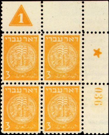 Israel postage stamp issued in 1948 3 mils yellow - block of 4. Hebrew letters read doar Ivri (literally "Hebrew Post"), with a translation into Arabic. Shows ancient coin with ancient Hebrew script and palm tree.